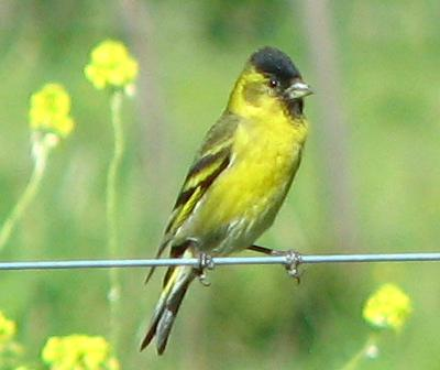 Macho chilena. Description: Black chined siskin male (Carduelis barbata) Creator: Juan Tassara. Date: 21 de enero de 2008 (21-01-2008) Place: Chile